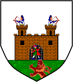 own work Shield of City of Kilkenny Author: User:Djegan